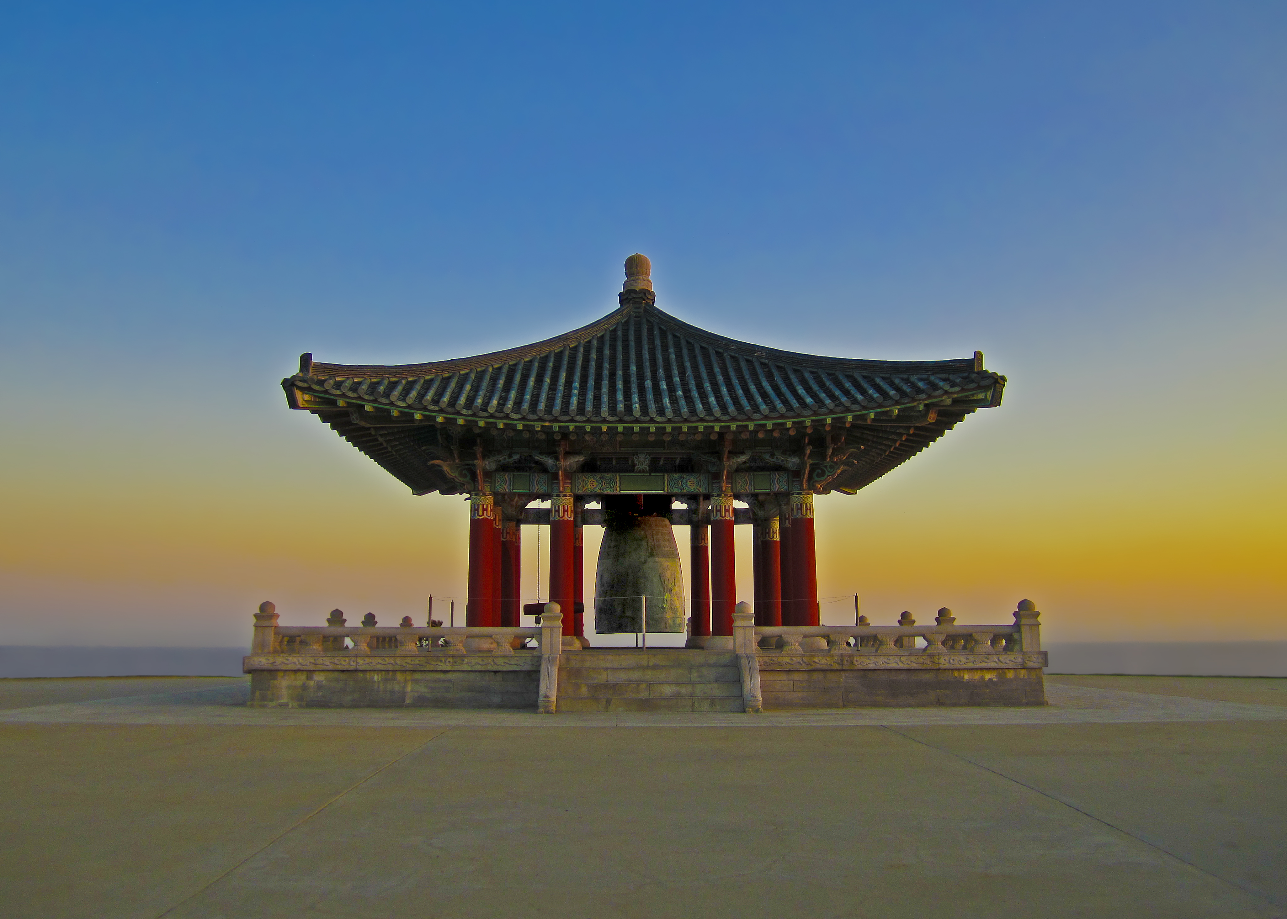 Korean Bell of Friendship. Angel's Gate Park, San Pedro, California. A Los Angeles Historic Cultural Monument. The bell was presented by the Republic of Korea to the American people to celebrate the bicentennial of the United States and to symbolize friendship between the two nations. The effort was coordinated by Philip Ahn, a Korean American actor. It was dedicated on October 3, 1976, and declared Los Angeles Historic-Cultural Monument No. 187 in 1978.